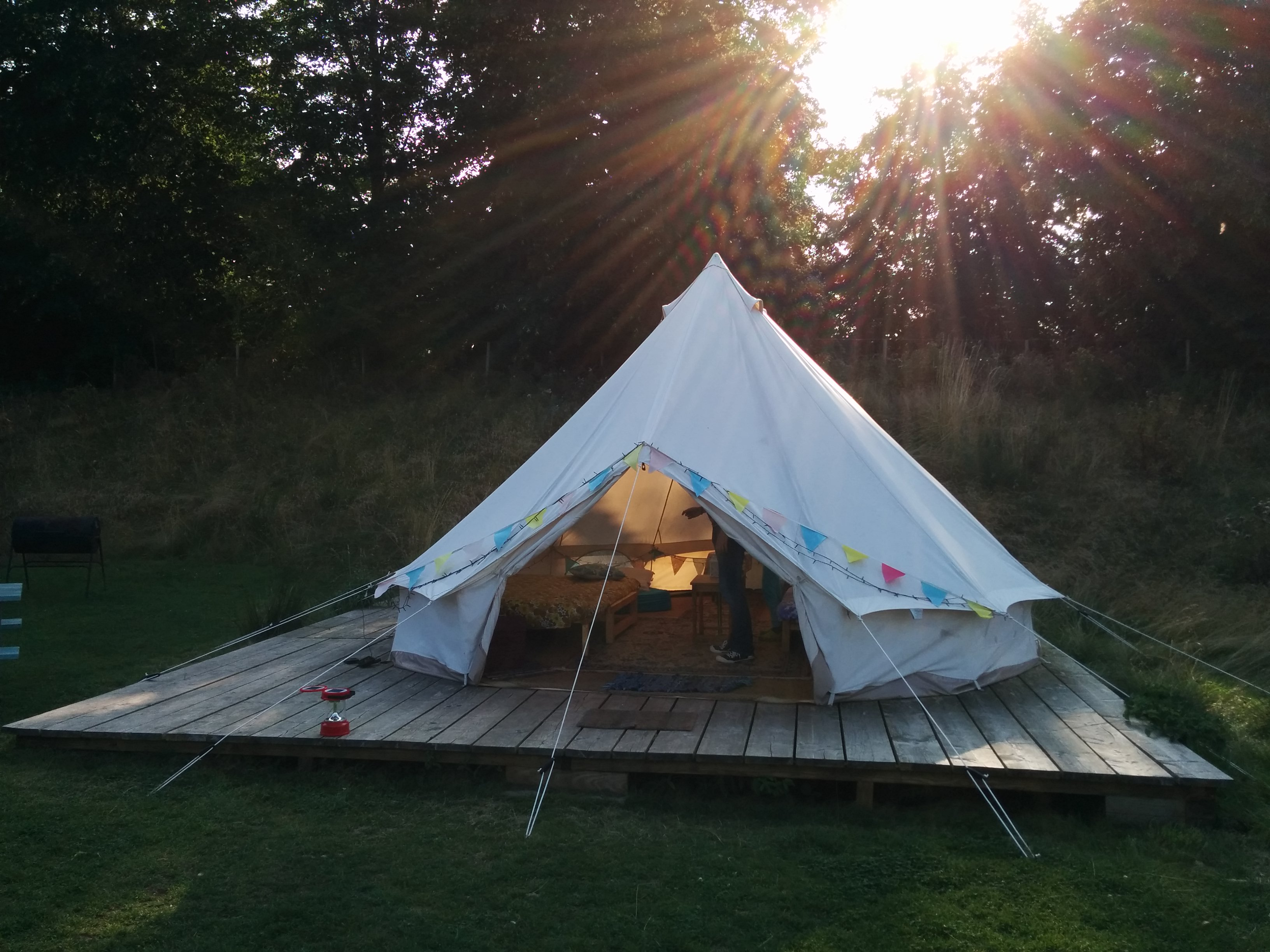 A glamping hut